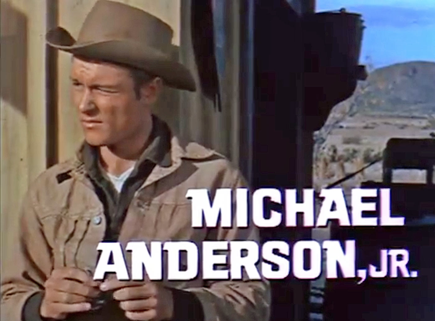 Michael Anderson Jr. in trailer for "The Sons of Katie Elder" (1965)